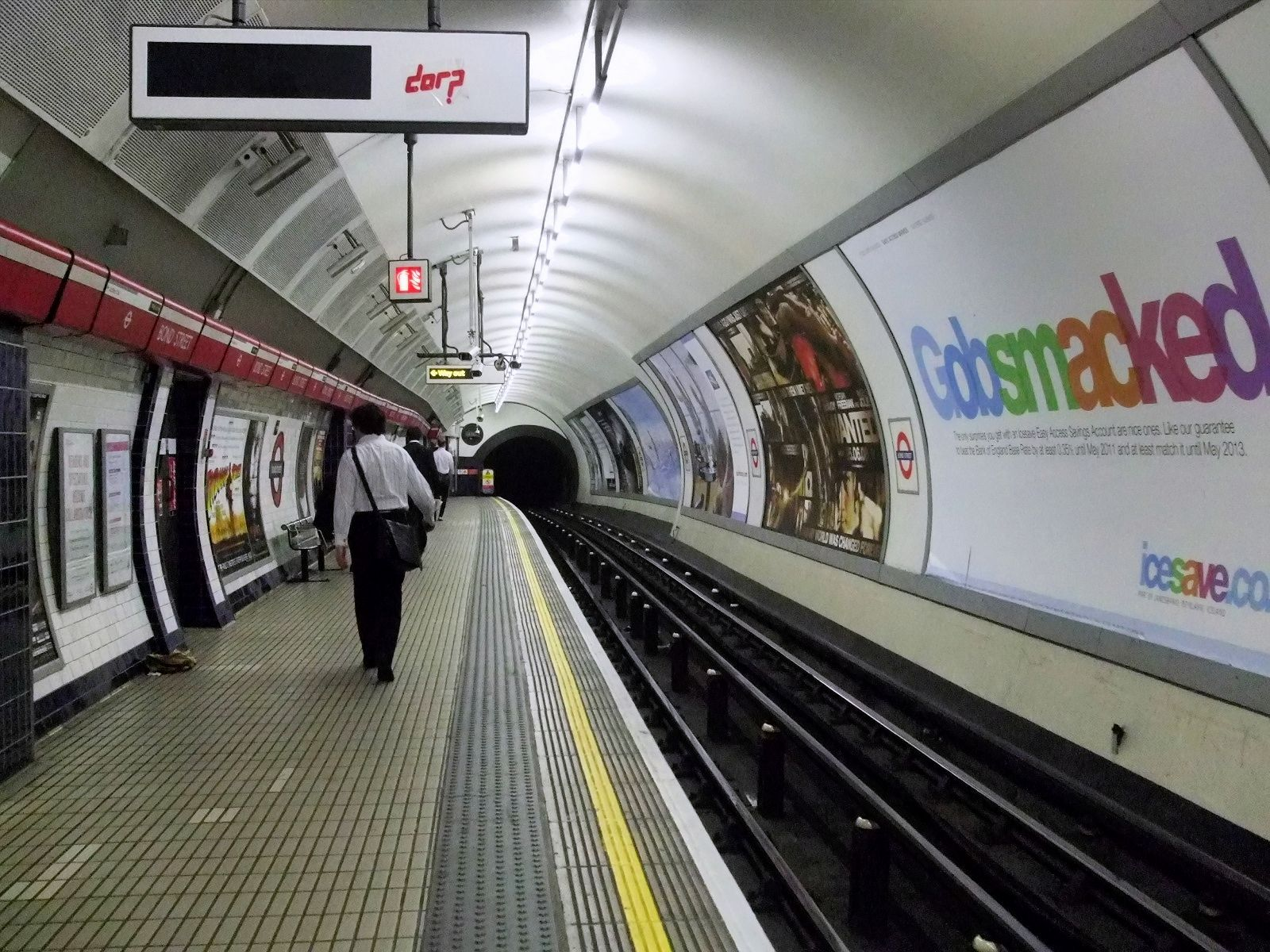 Bond Street tube station Central line westbound platform looking east